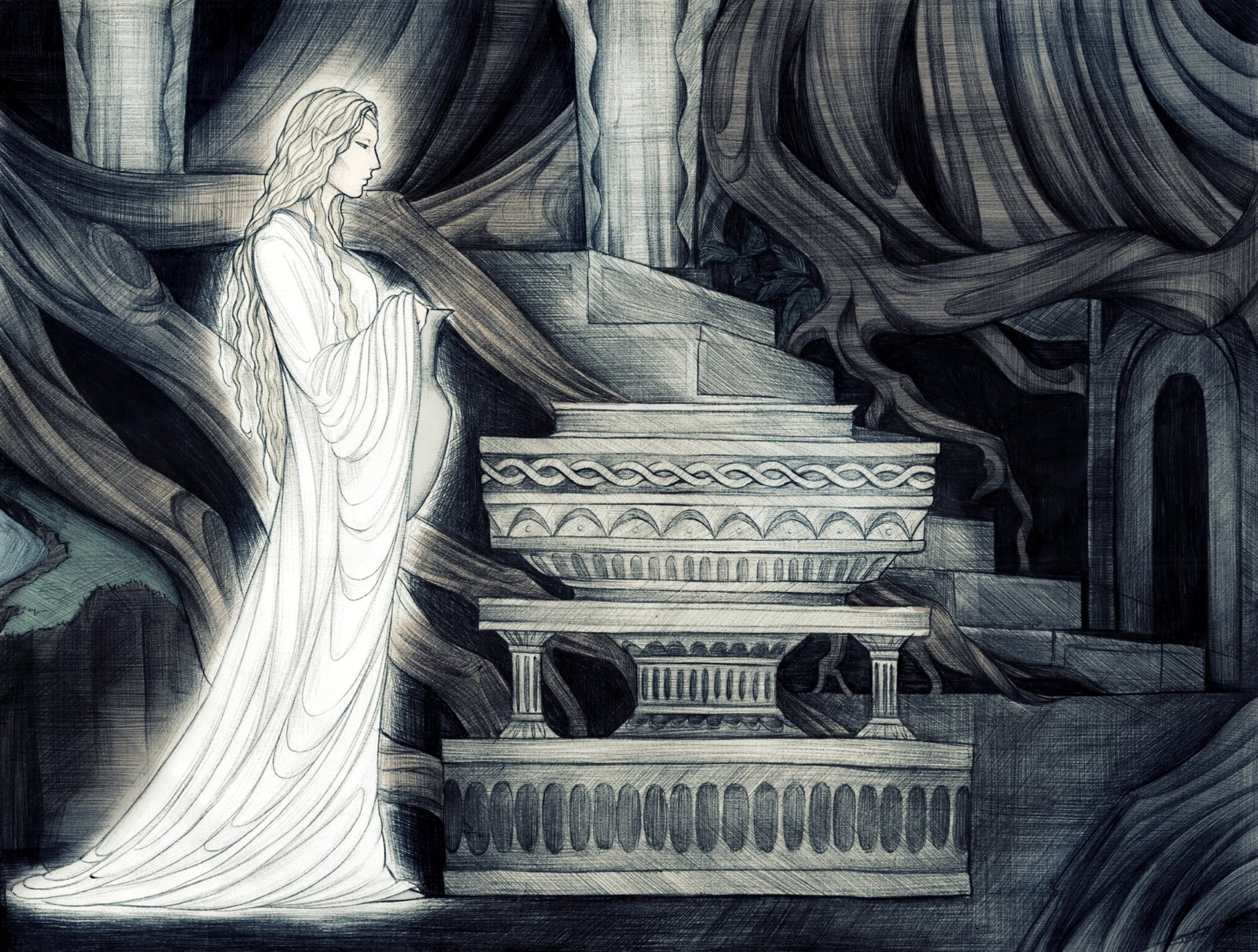 Lothlorien (Galadriel and her mirror) by Tessa Boronski.